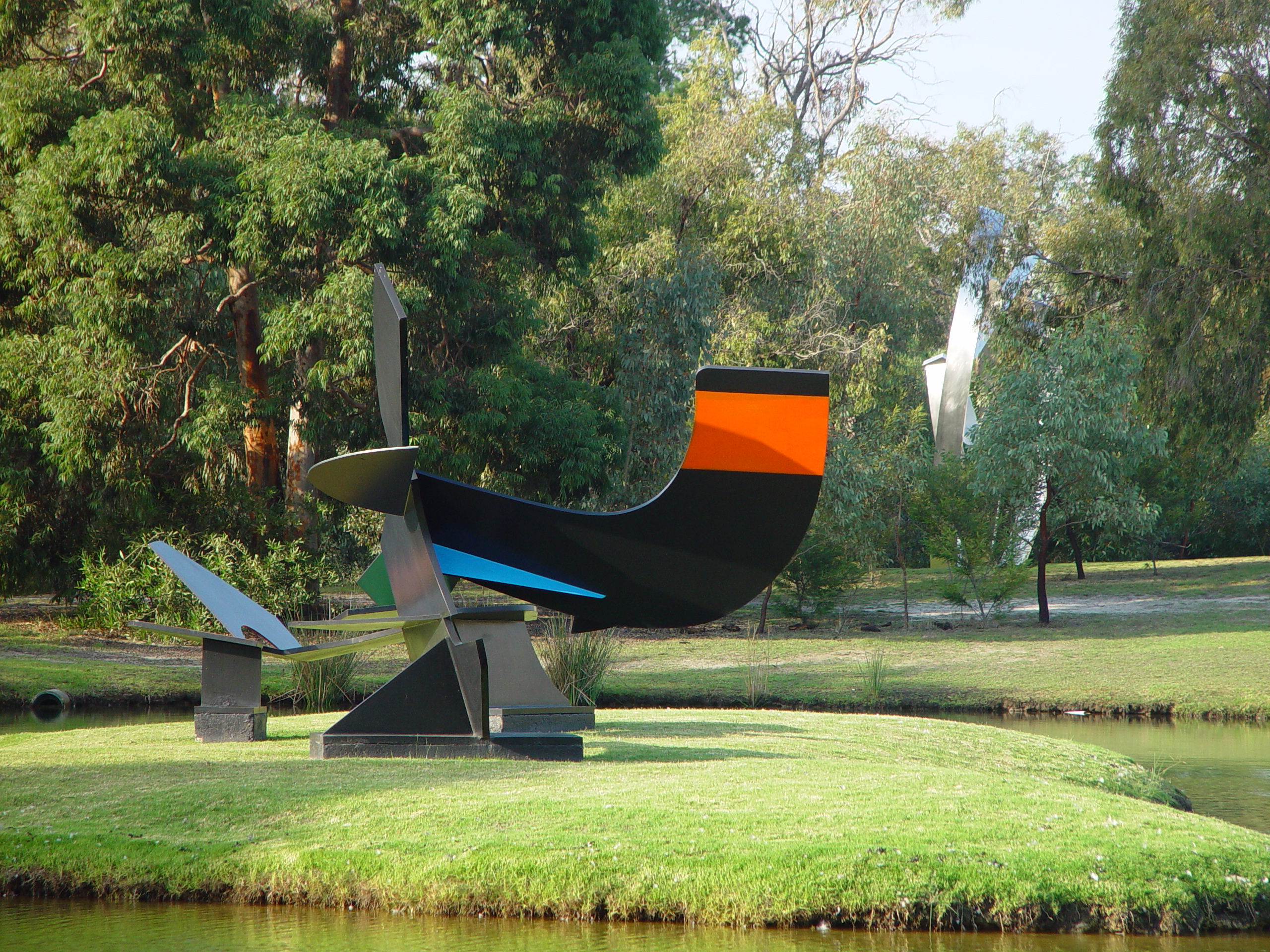 Inge King's 1991 steel sculpture "Island Sculpture" is located at the McClelland Gallery and Sculpture Park, 390 McClelland Drive Langwarrin, Victoria, Australia. This view is looking east-north-east. To the right is Lenton Parr's 2003-04 stainless steel "Tara". Licencing